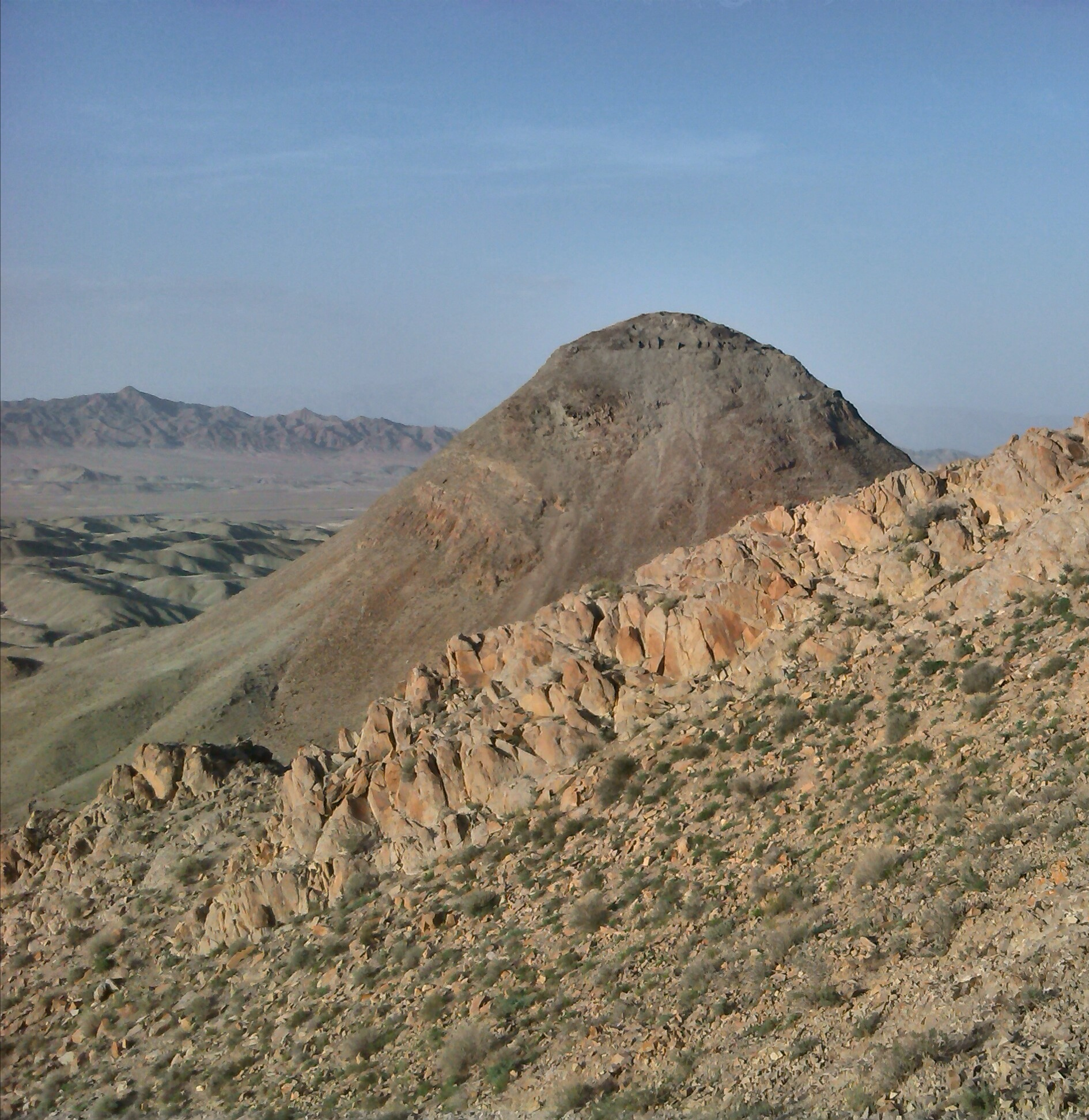 ghaleh kooh zardan